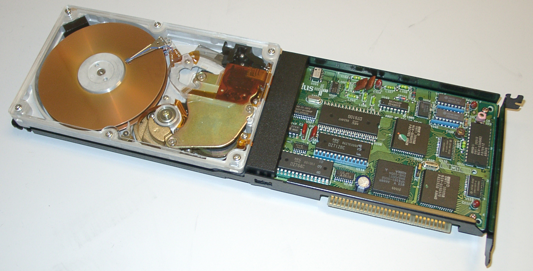 Photograph of a Plus Hardcard 20 hard disk drive on a card with a Plexiglas cover used for display purposes only.